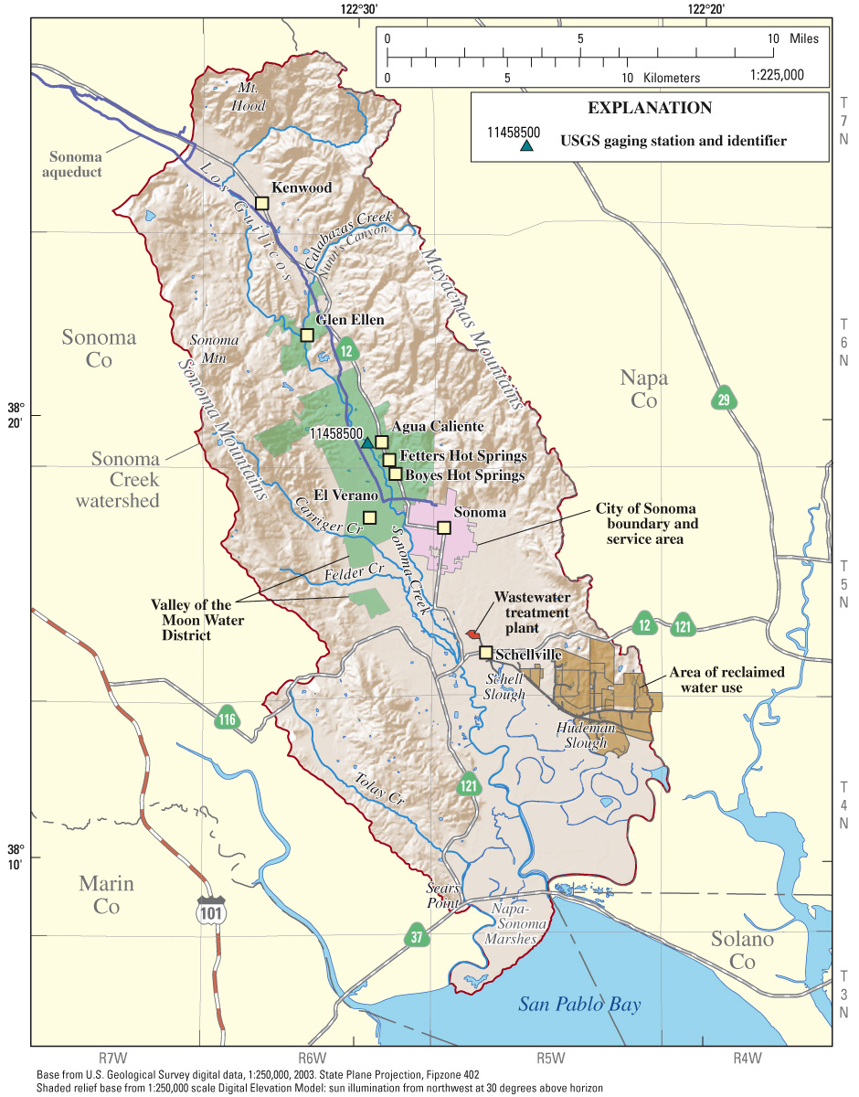 Location of the Sonoma Creek Watershed.